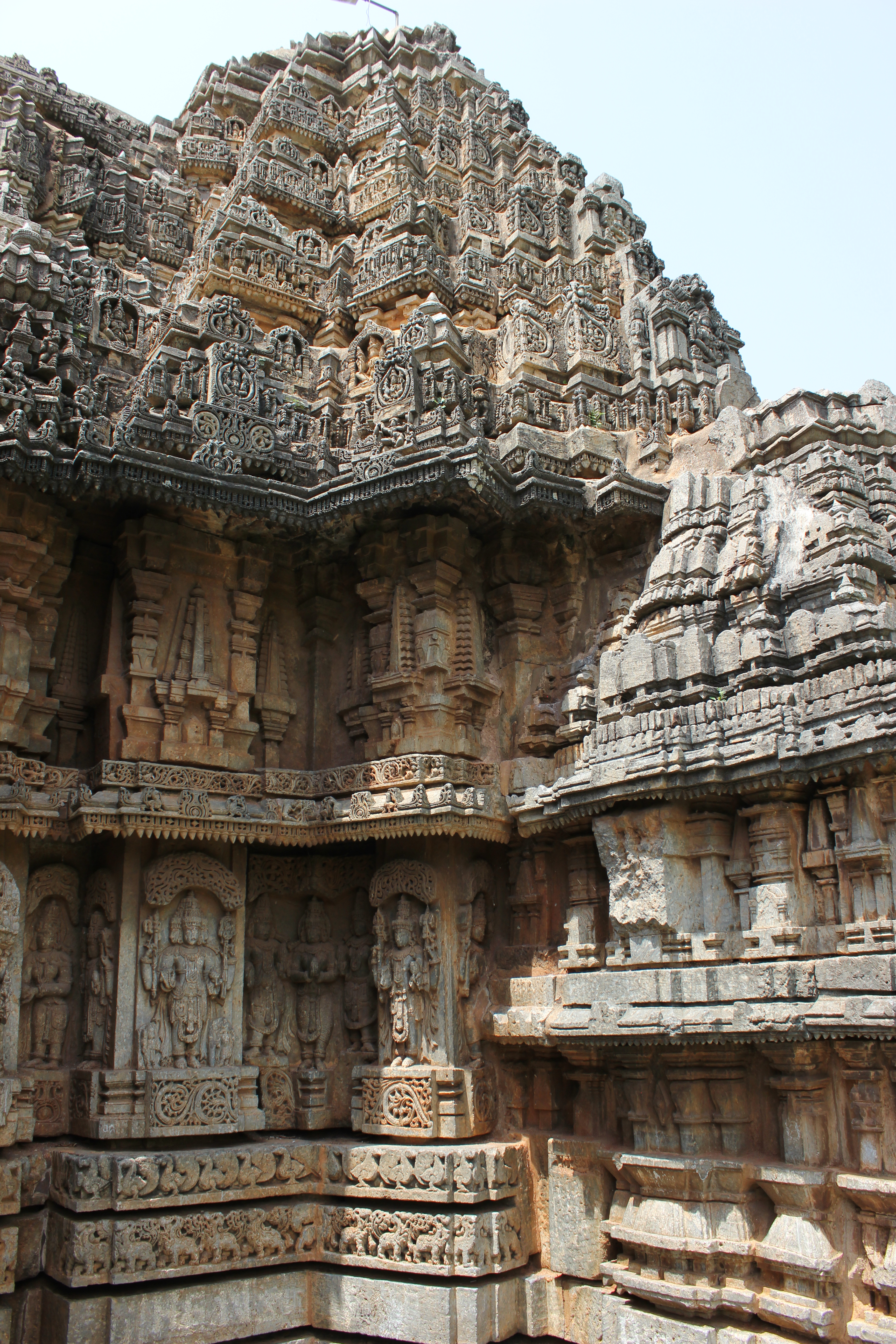 This photograph was taken by me at Haranhalli, Hassan district, Karnataka state, India. The temple, whose main deity is the Hindu god Shiva (in the form of the Linga) , was built in 1235 A.D. by the Hoysala Empire King Vira Someshwara.